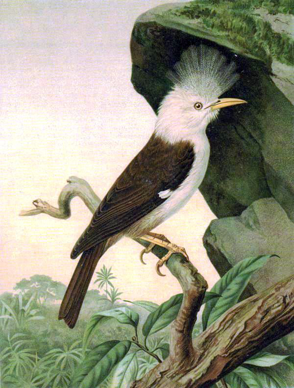 Chromolithograph after painting by E. de Maes from J. Fraipont's Collections Zoologiques du Baron Edmund de Selys Longchamp - Oiseaux (1910).